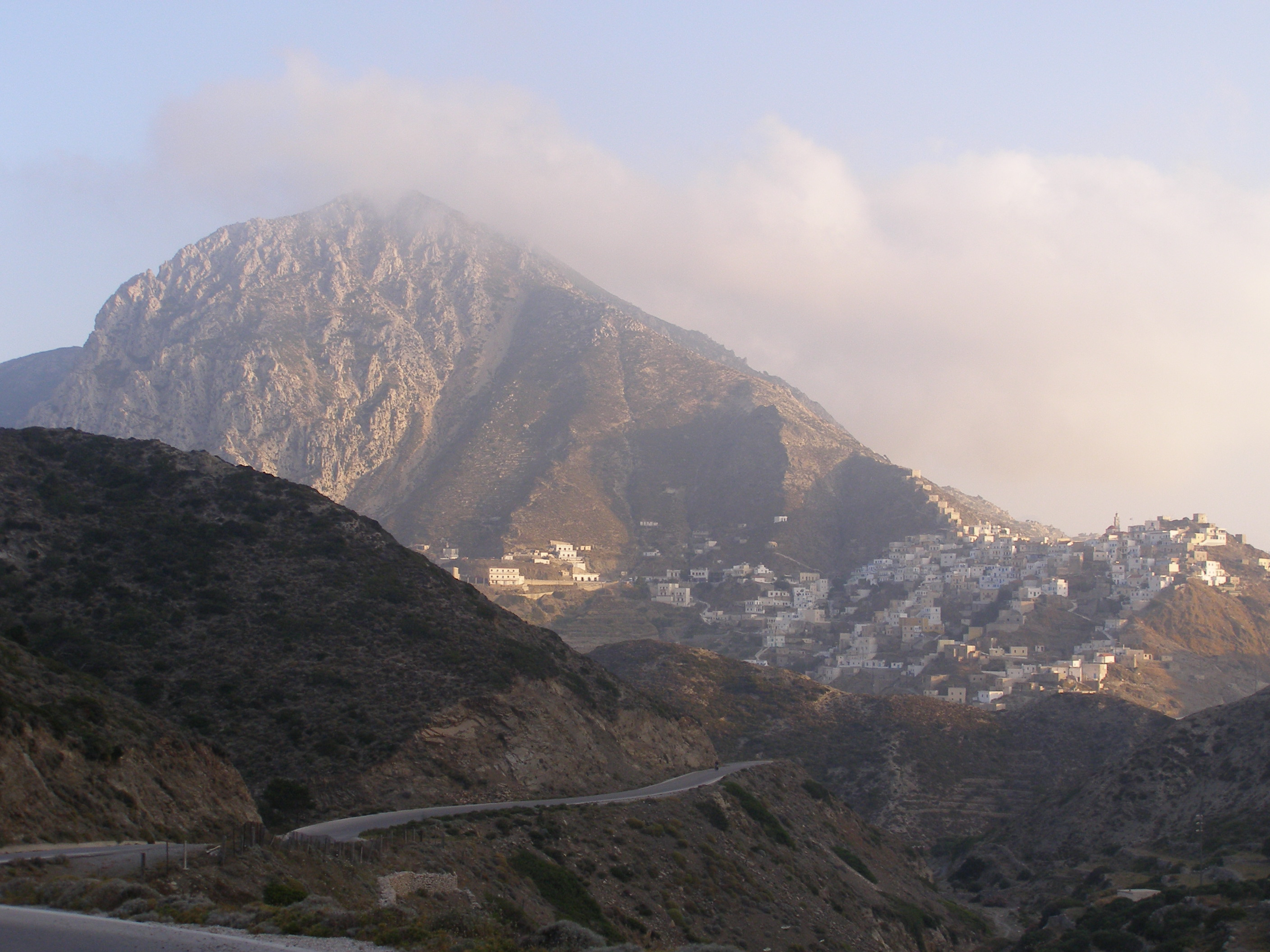 The village of Olympos, photo credit John P Haskell